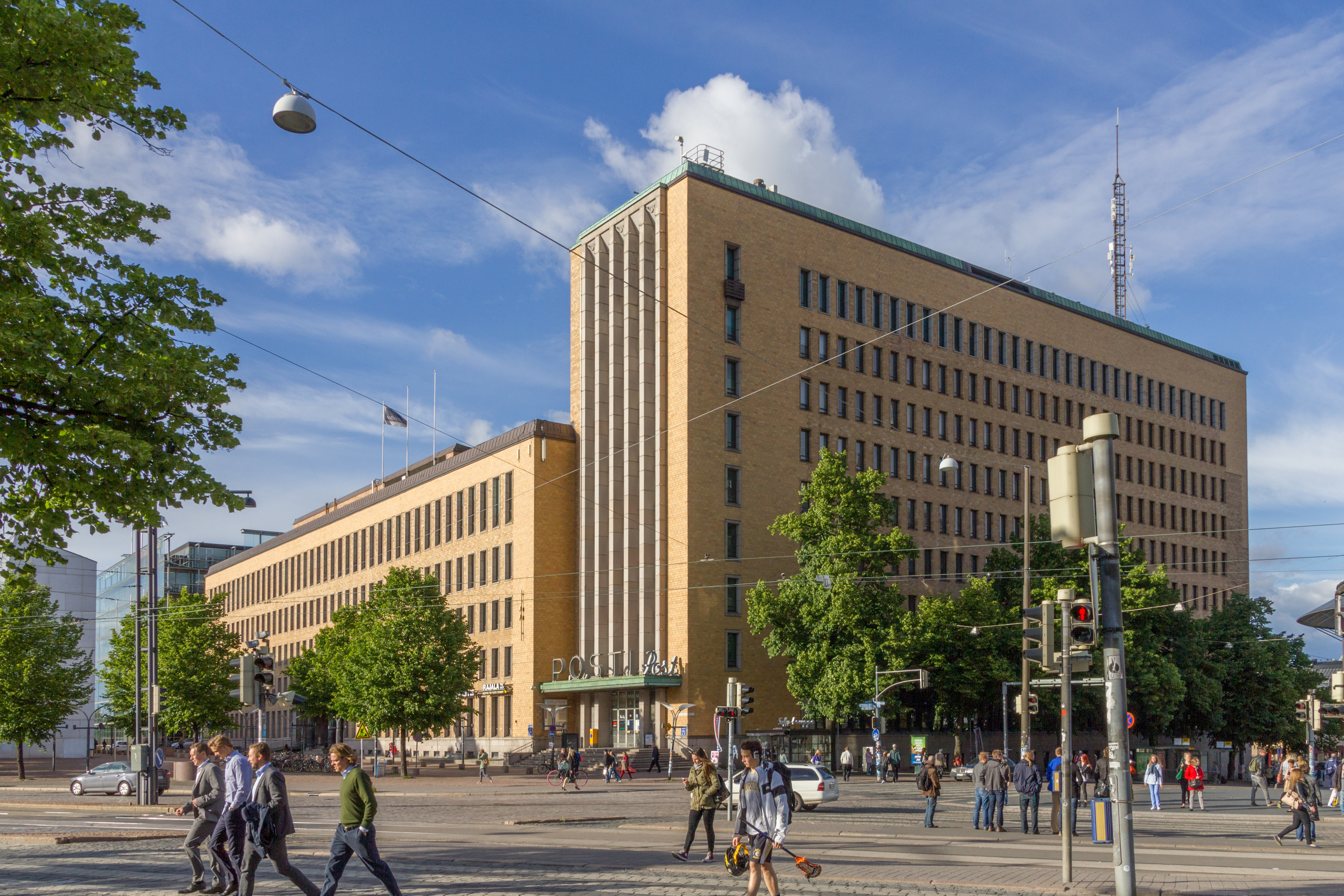 Main post office in Helsinki.